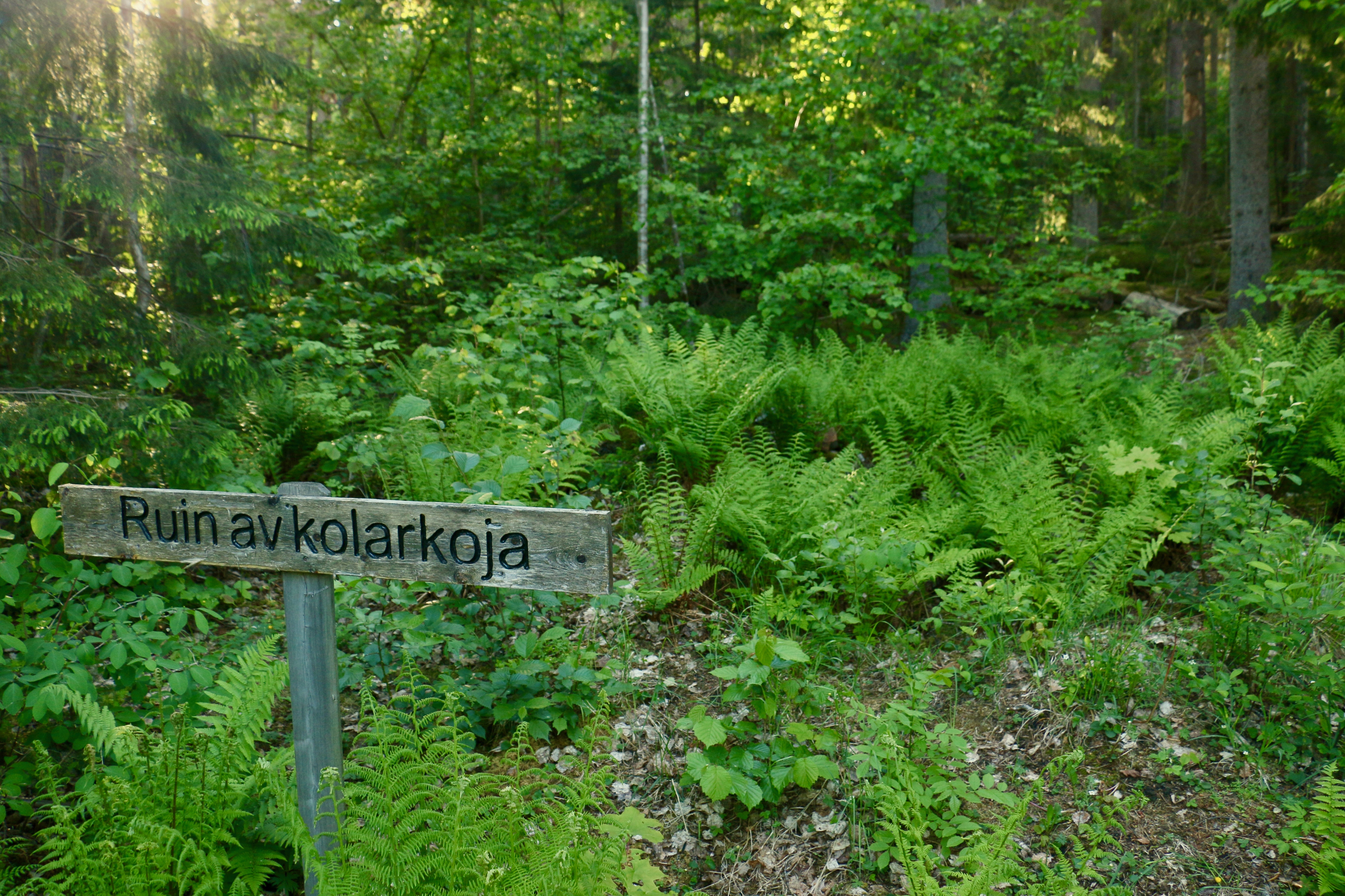 Ruins of charcoal burner hut, in Garphyttan NP